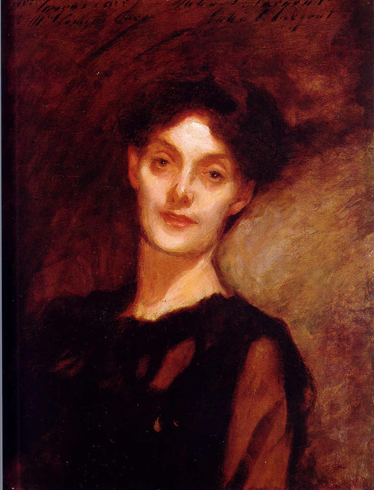 Mrs. J. W. Comyns Carr John Singer Sargent -- American painter c. 1889 Speed Art Museum Louisille, Kentucky Oil on canvas 64.5 x 50.5 cm (25 3/8 x 19 7/8 in.) Inscription u.l.: to Mrs. Comyns Carr Inscription u.r.: John S Sargent Gift of Mrs. Chauncey McCormick and Mrs. Richard E. Danielson, No. 51.13 Jpg: local